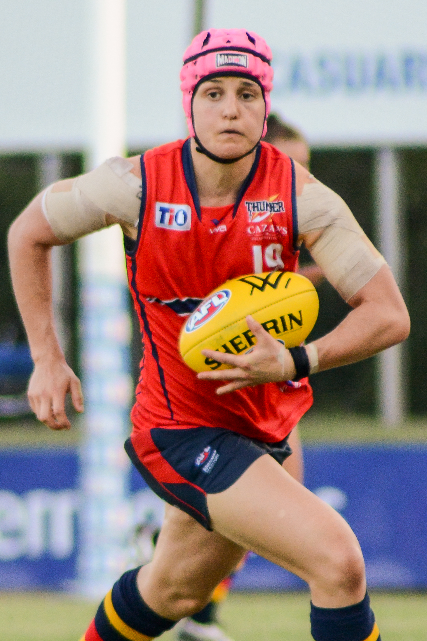 Heather Anderson in January 2017